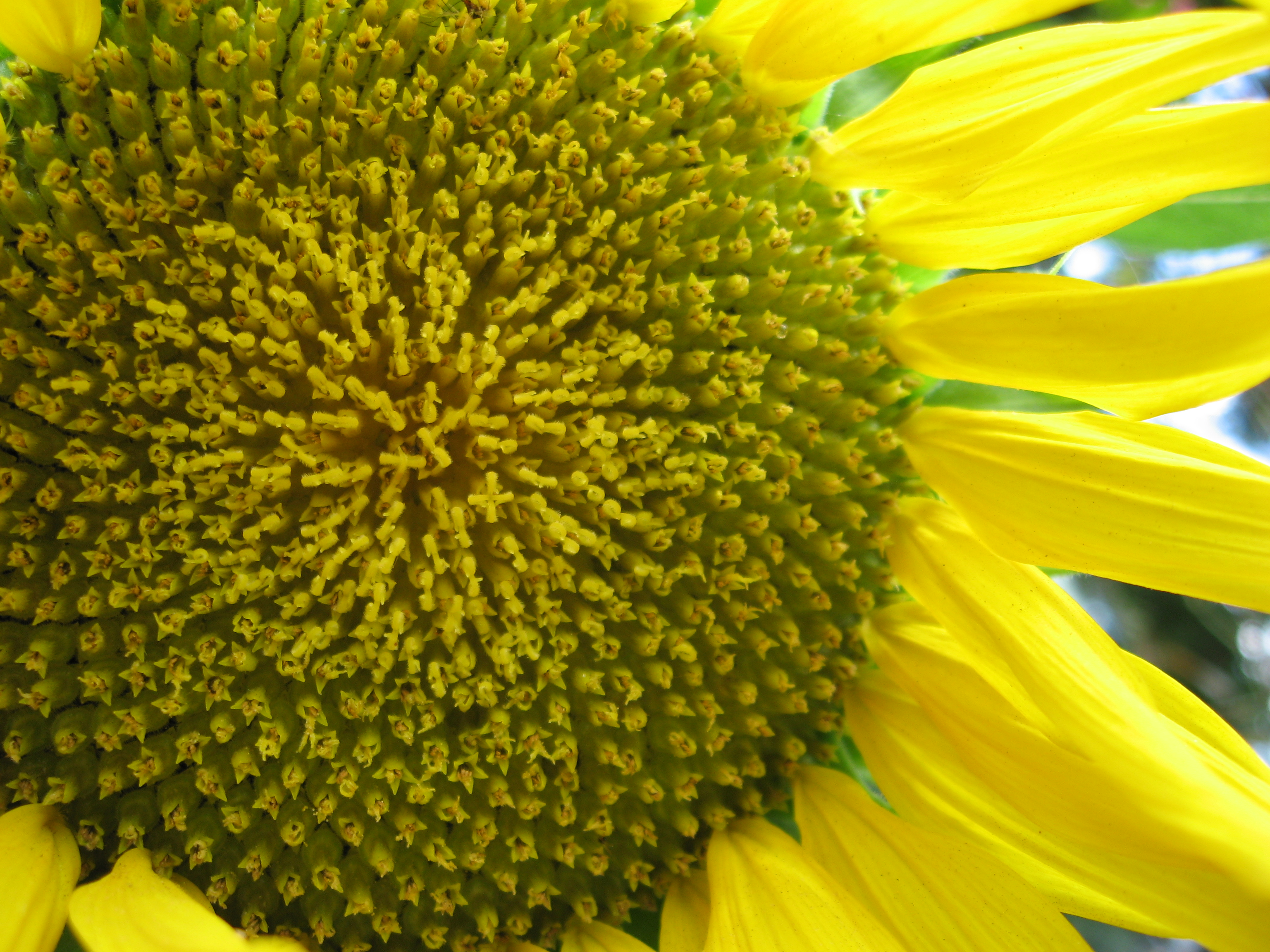 Helianthus annuus Macro Of Sunflower